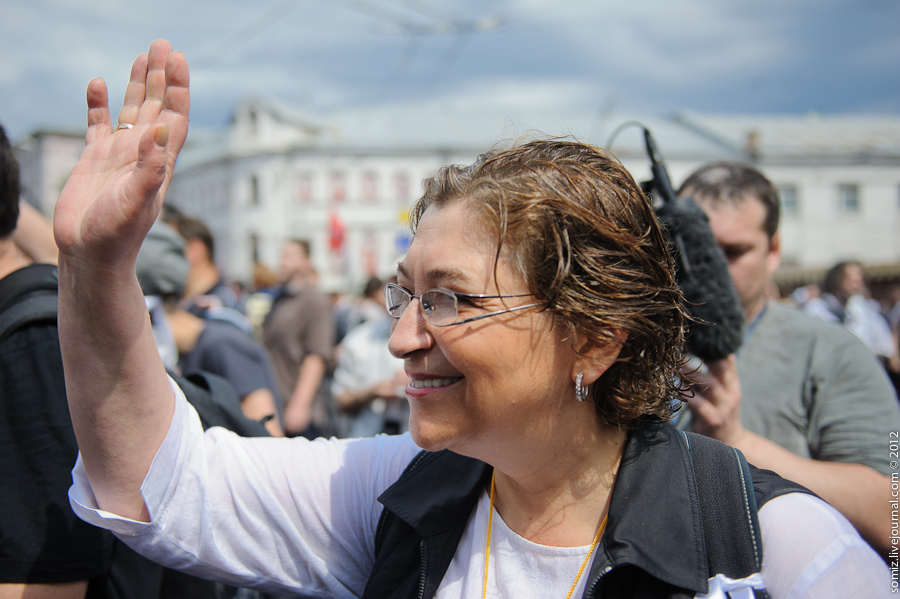 She is a Russian investigative journalist, political scientist, writer and radio host. June 12 was held in Moscow next protest demonstration of opposition. On the march sounded slogans against the government of Putin and his regime. Marsh took place against the backdrop of interrogations the leaders of the opposition movement and the next day after were a large-scale searches.